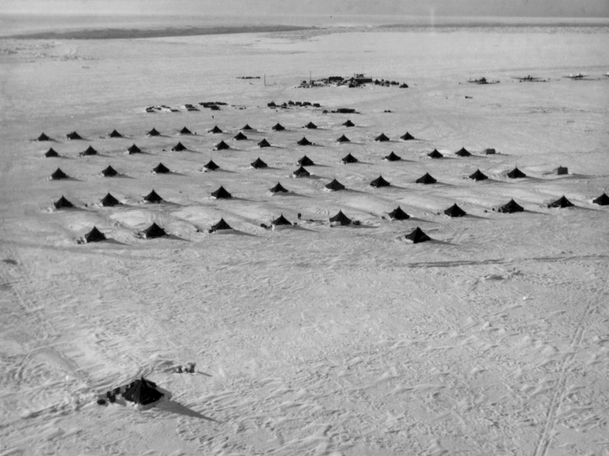 View of the rows of tents and other structures that formed the "Little America IV" station in the Antarctic during the U.S. Navy "Operation Highjump".